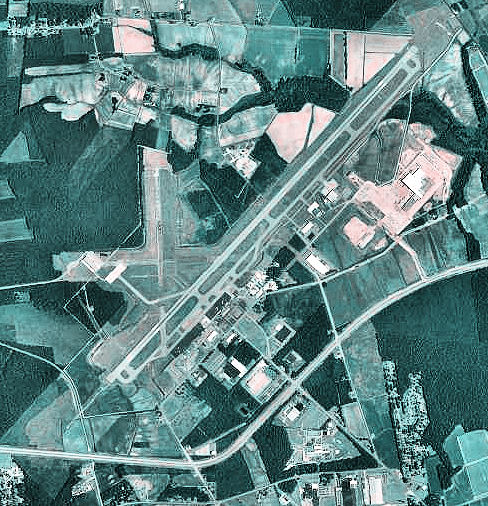 USGS digital orthophoto of Kinston Regional Jetport in North Carolina